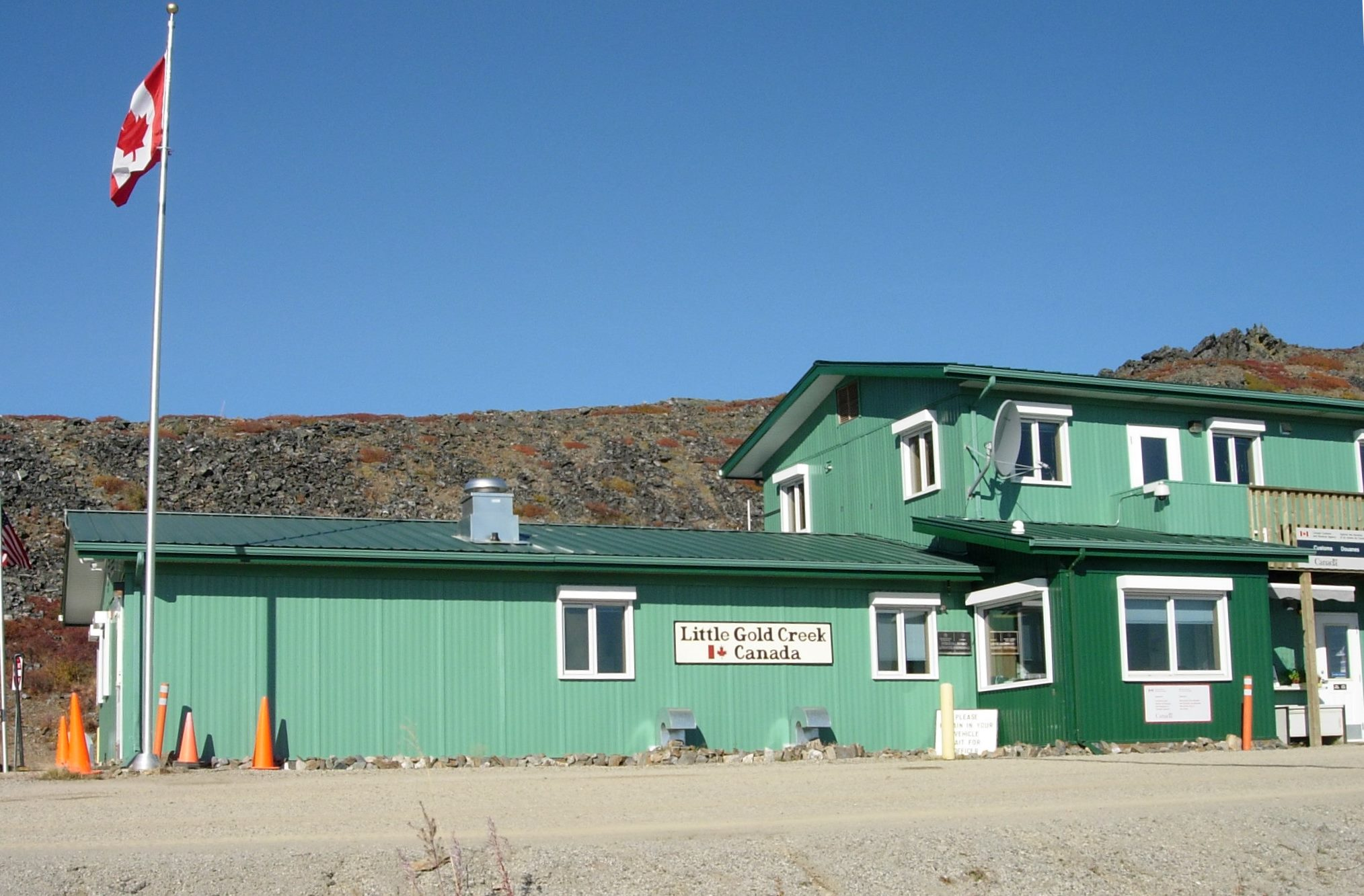 CBSA offices at Little Gold Creek, Yukon